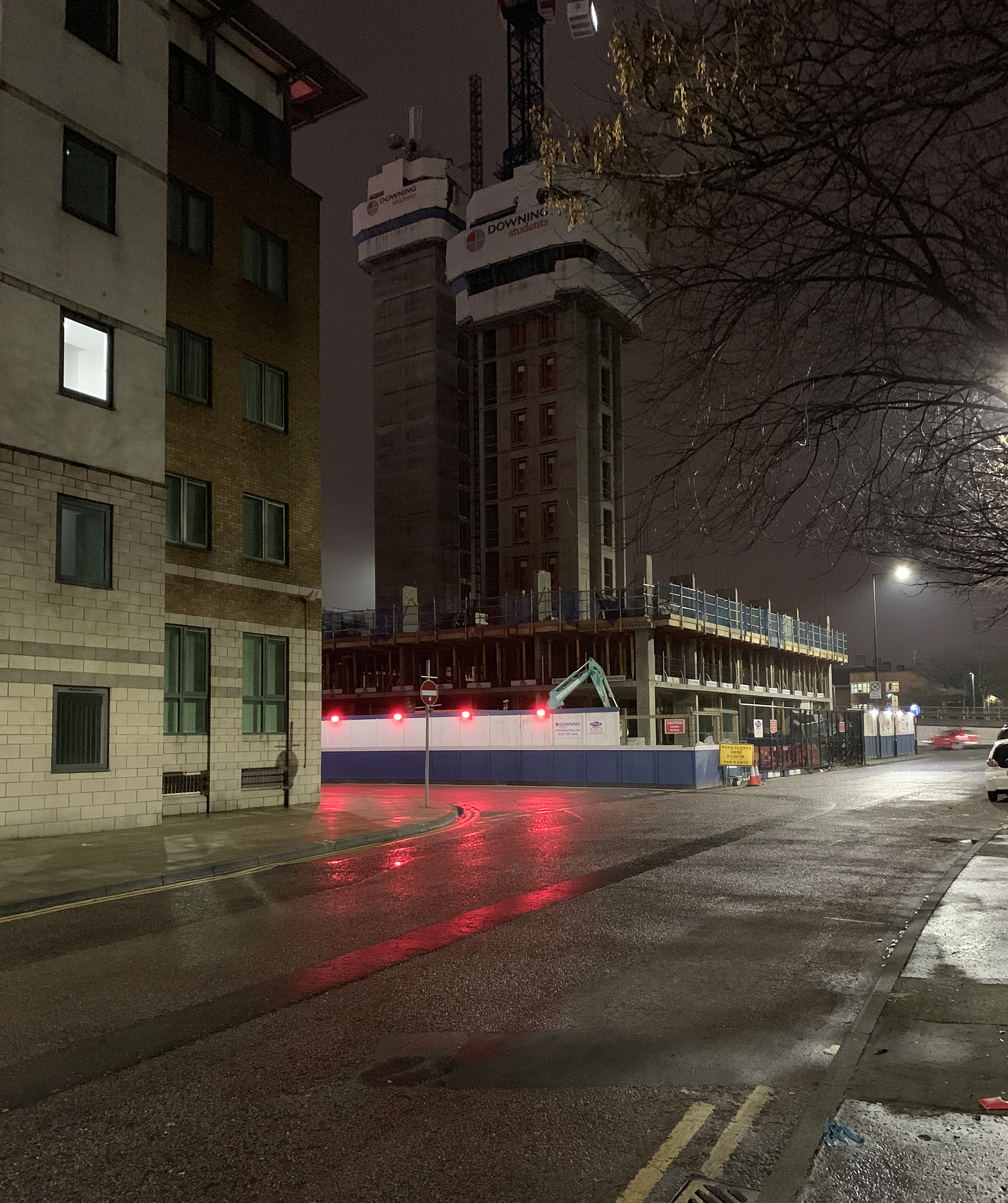 River Street Tower 6/1/19